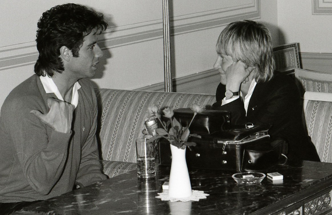 Kersti Adams-Ray interviews John Travolta in Sweden about his then new movie "Stayin' Alive".